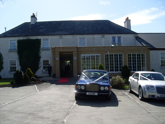 Lochside House Hotel The fancy cars outside are here for a wedding show. Lochside has some excellent accommodation with fine views over Loch o' th' Lowes.